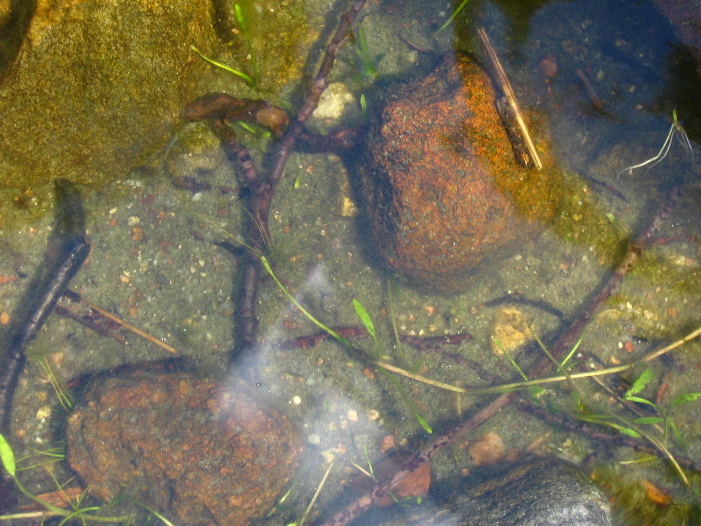 Ranunculus reptans in lobelian lake Bobięcińskie Wielkie, Poland